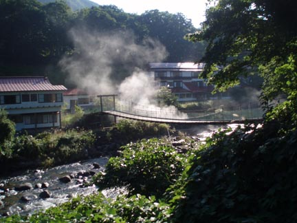 Photo of Takanoyu Onsen and steam rising from the hot spring, Akita Prefecture, Japan